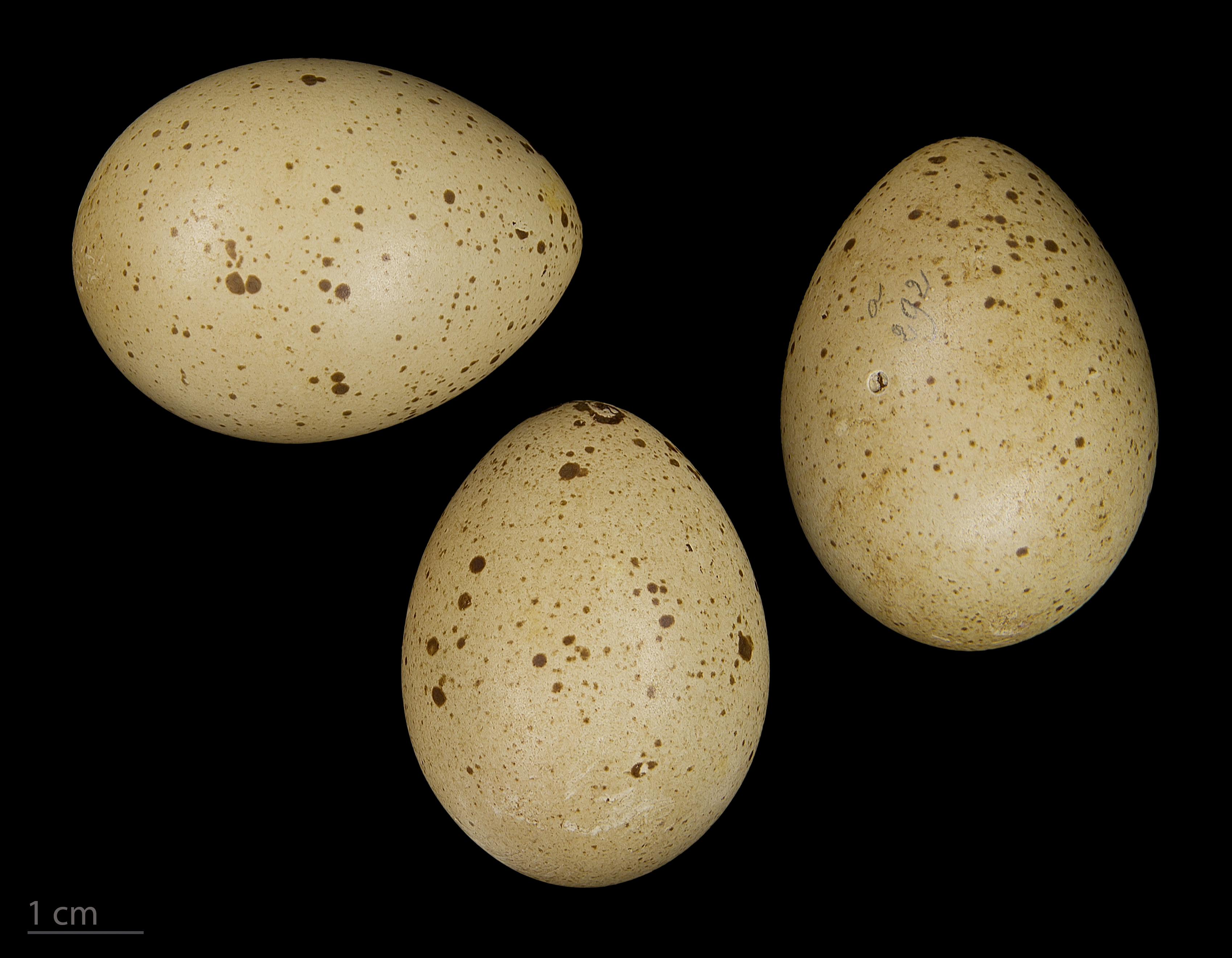 Egg of Tetrastes bonasia rupestris Collection of Jacques Perrin de Brichambaut.